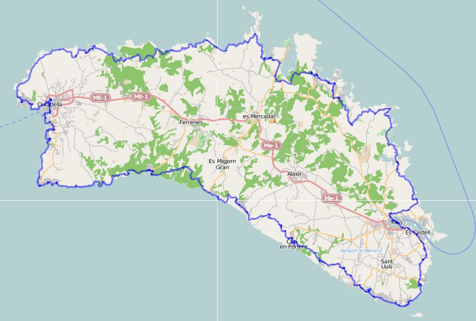 Route of the path 'Camí de Cavalls', Minorca, Spanien. This map may be incomplete, and may contain errors. Don't rely solely on it for navigation.